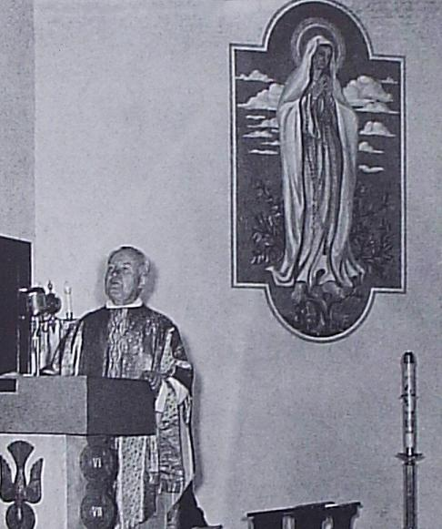 This is a digital copy, cropped and re-colored, made from an old snapshot.